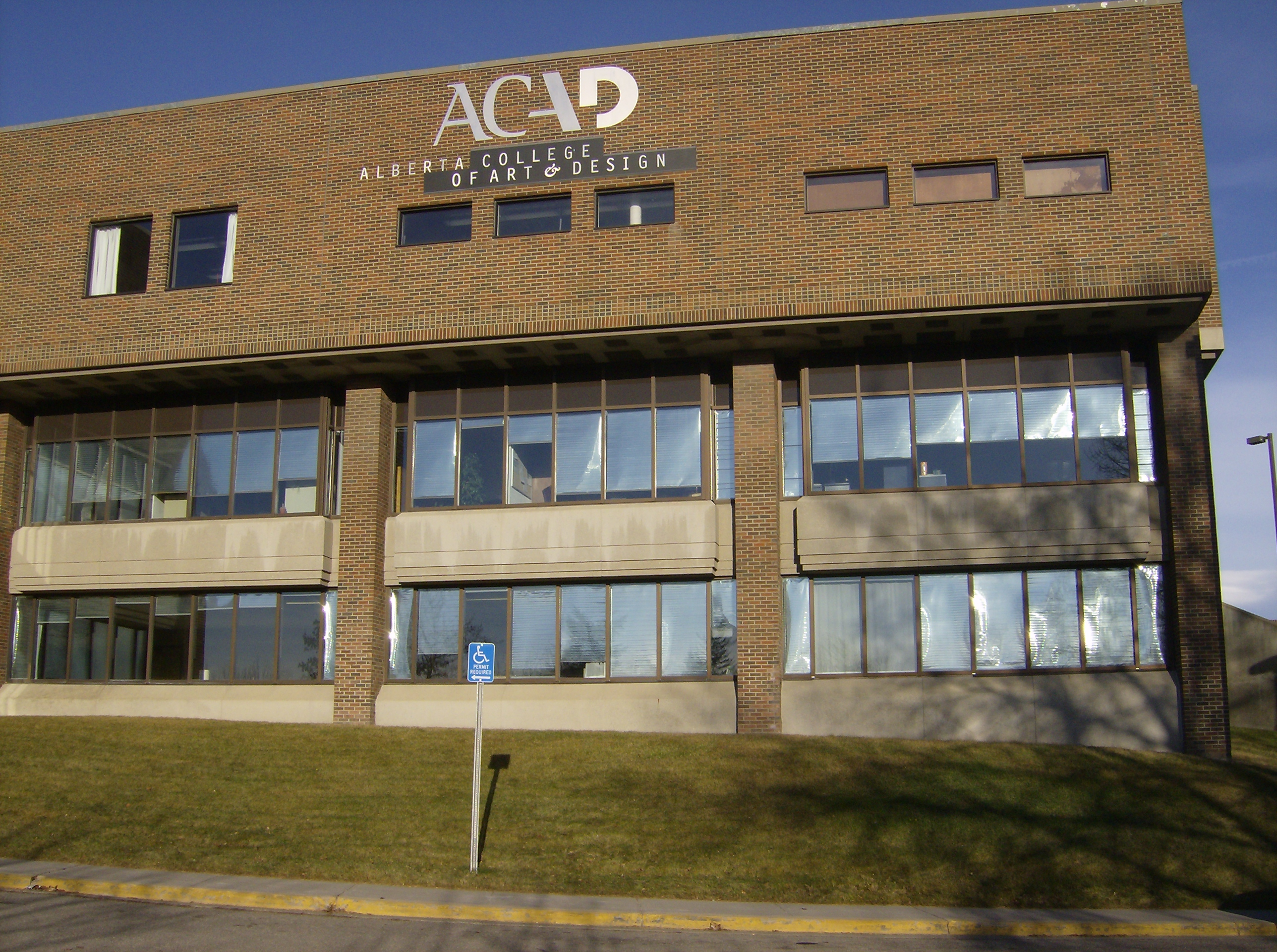 Alberta College of Art and Design in Calgary, Alberta, Canada.